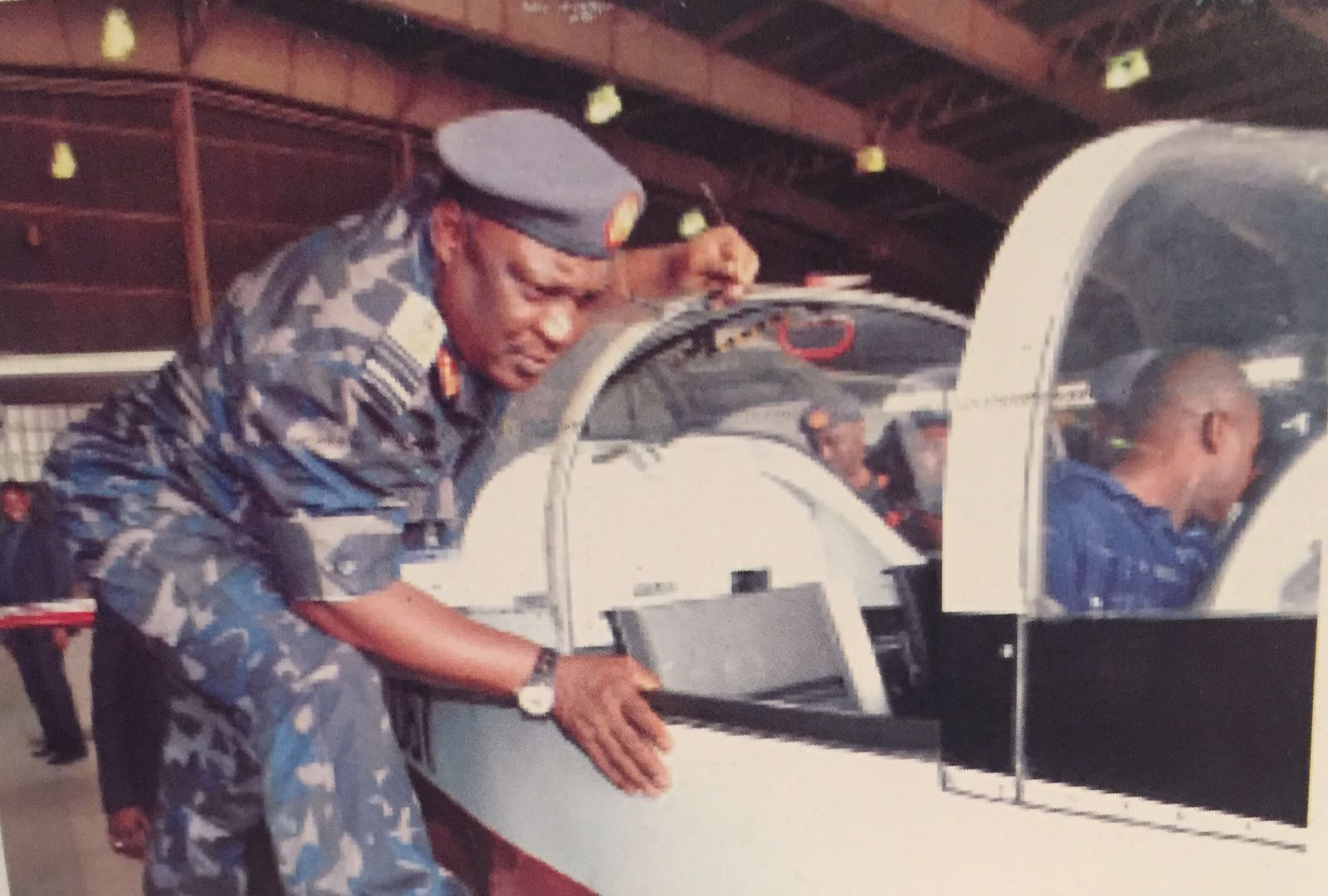 Alex Sabundu Badeh's while serving